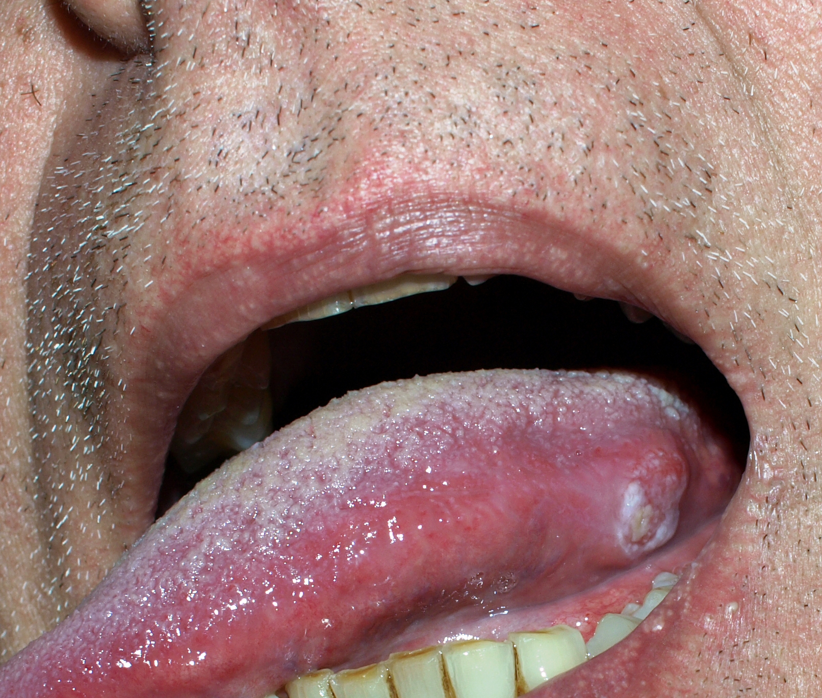 Epithelioma spinocellulare (58-year-old man). Diagnosis was histologically verified.